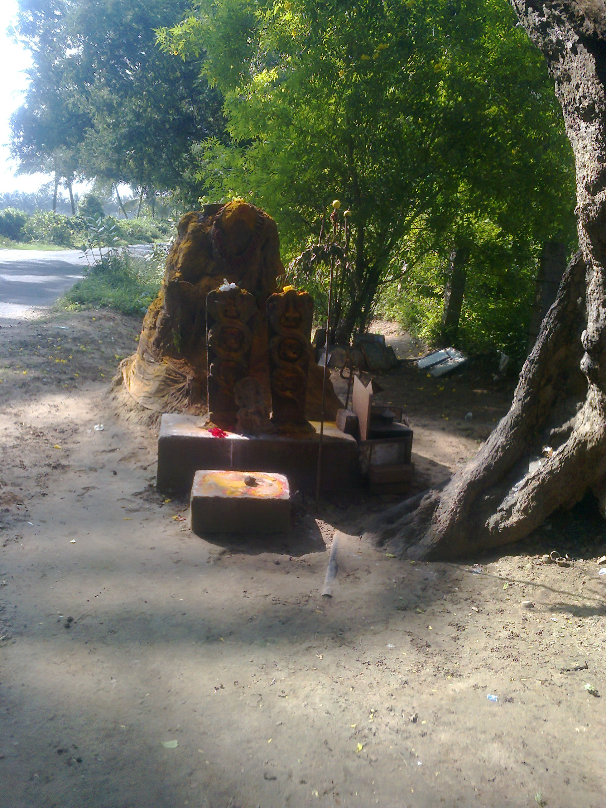 this temple is a cultural symbol of tamil peoples, it is seen in every villages of tamilnadu. LOCATION: vellingiri hills road, coimbatore, tamilnadu.